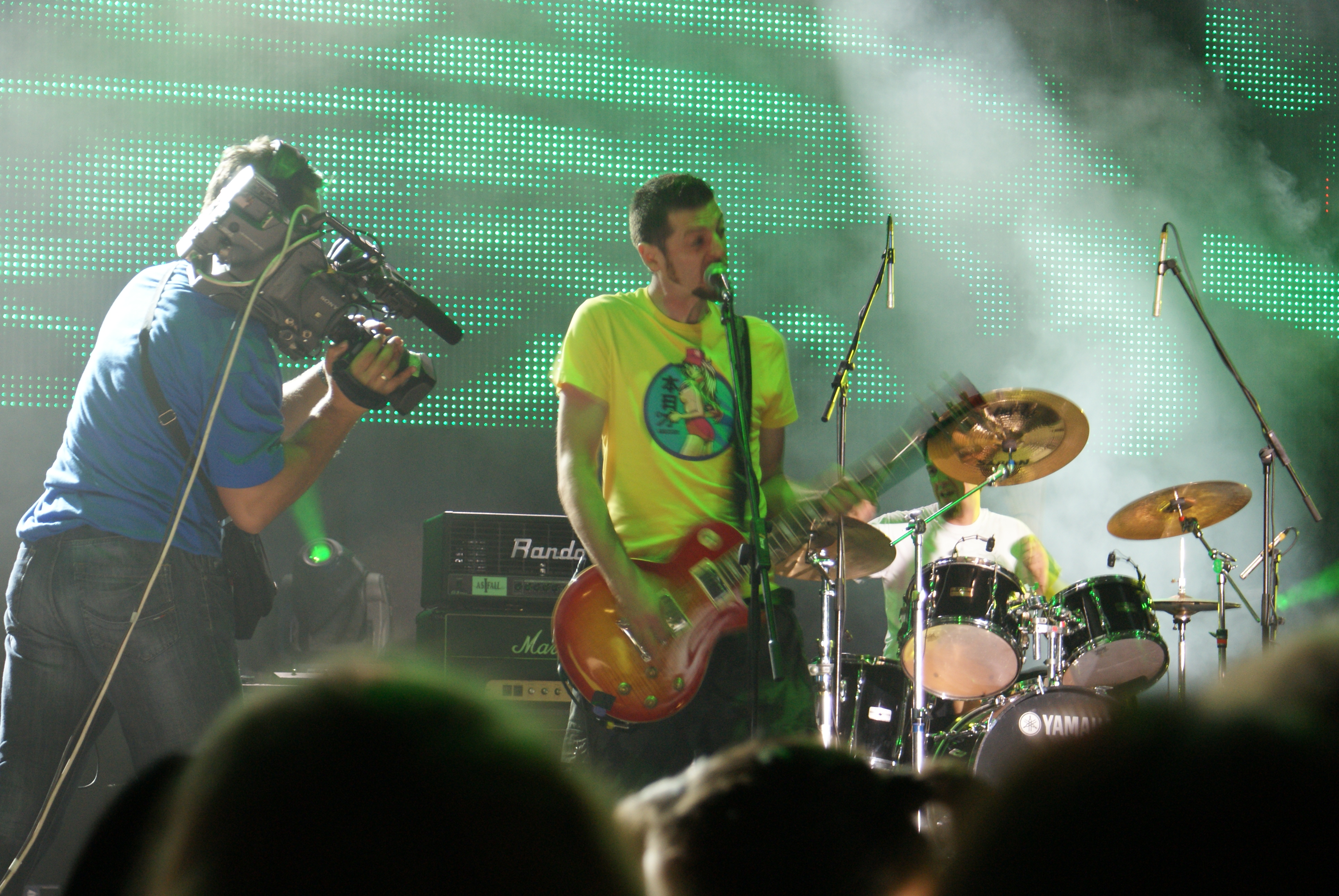 Day 1 - 27 July 2011